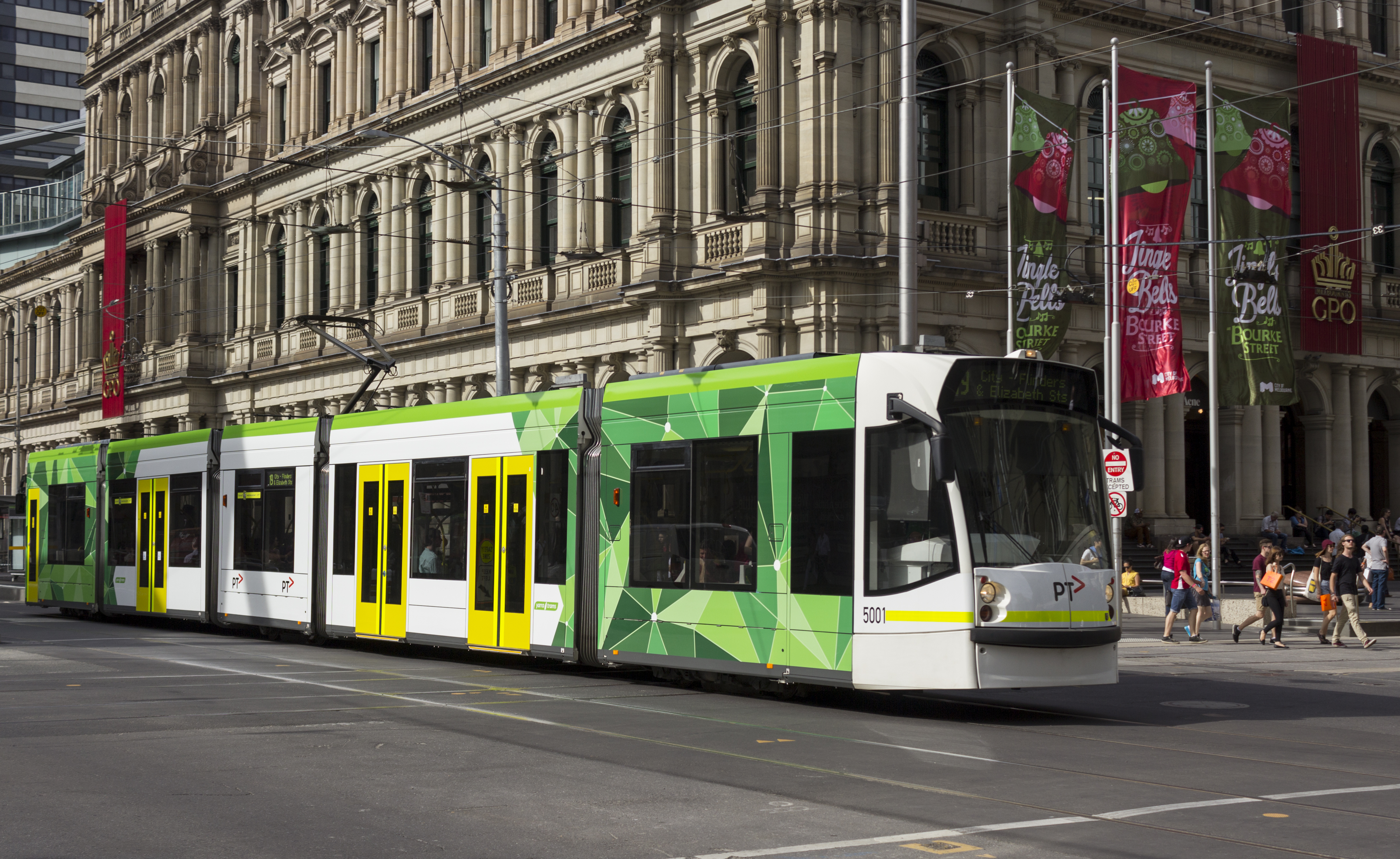 D2 5001 (Melbourne tram) in Elizabeth St on route 19 to City in Public Transport Victoria livery, December 2013.